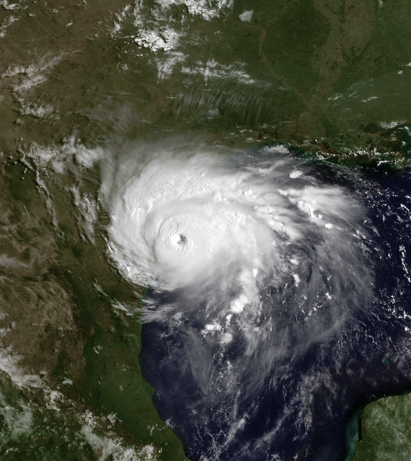 Hurricane Bret shortly after peak intensity on August 22, 1999.